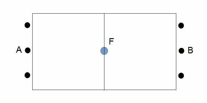 Sketch of a Flunkyball pitch: teams A and B, target F